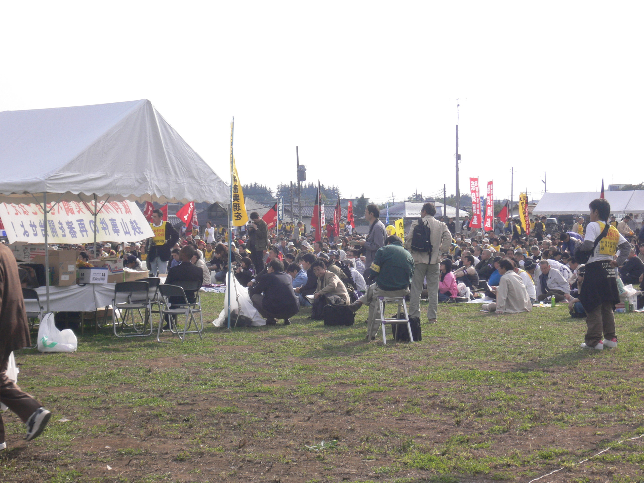 Sayama jiken Shukai (狭山事件), Sayama C, Saitama P.